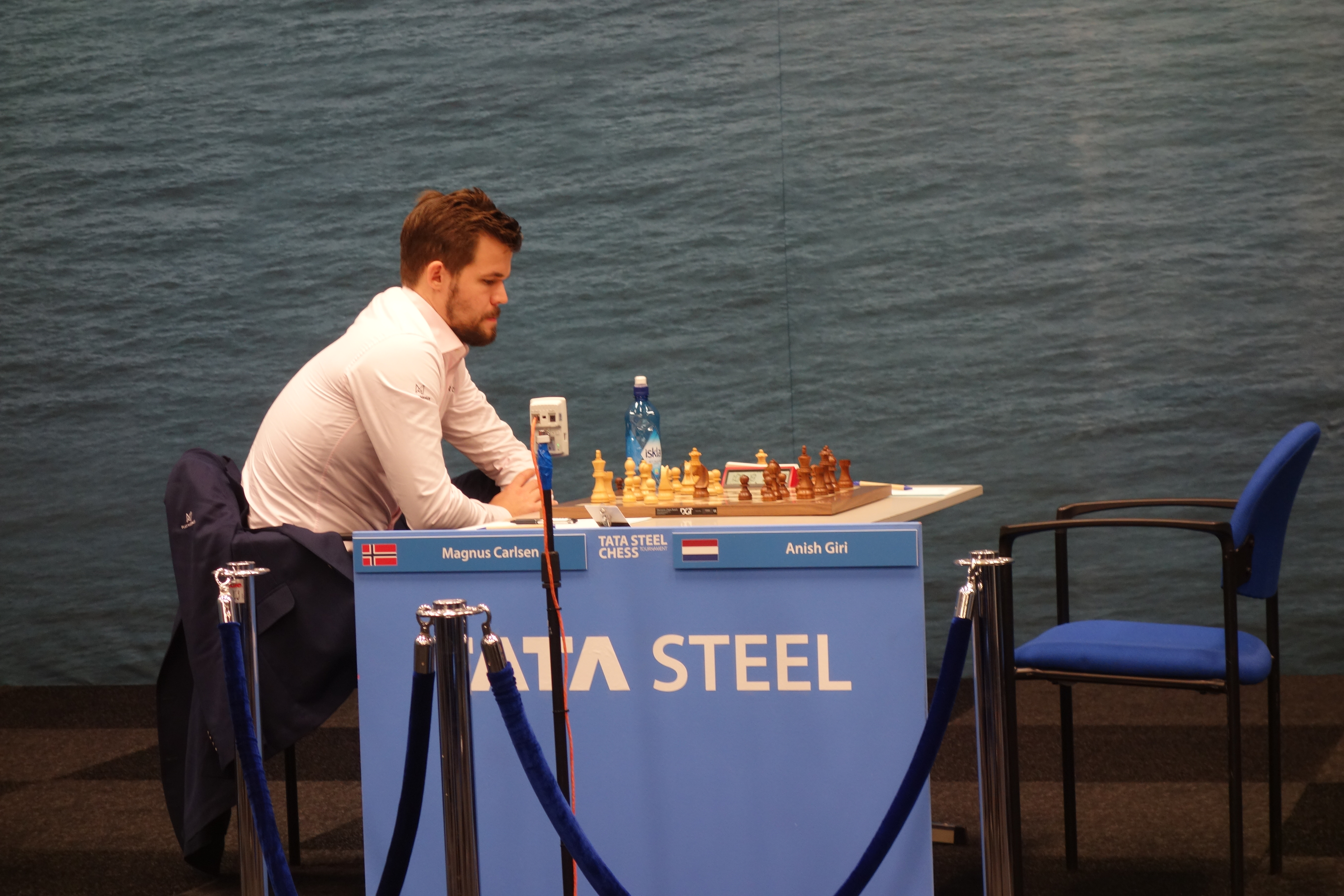 Magnus Carlsen at Tata Steel chess tournament 2020